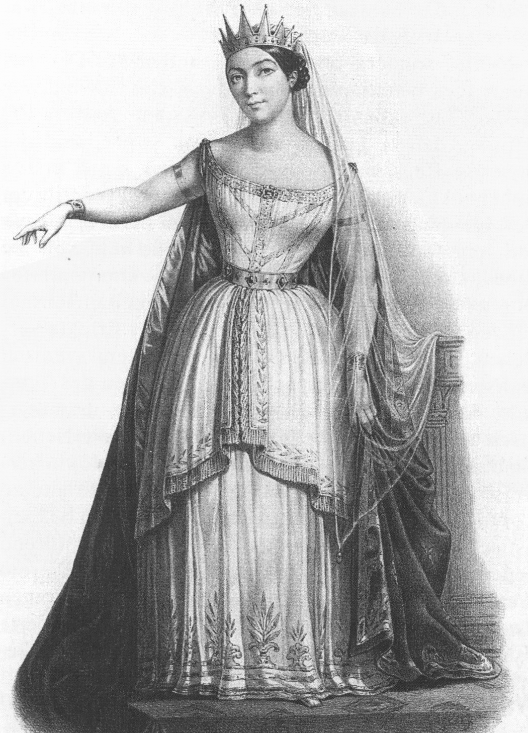 Rossini - Semiramide - Giulia Grisi as Semiramide - lithograph after a drawing by Alexandre Lacauchie